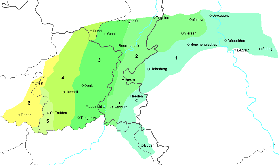 Outline of the South Low Franconian language